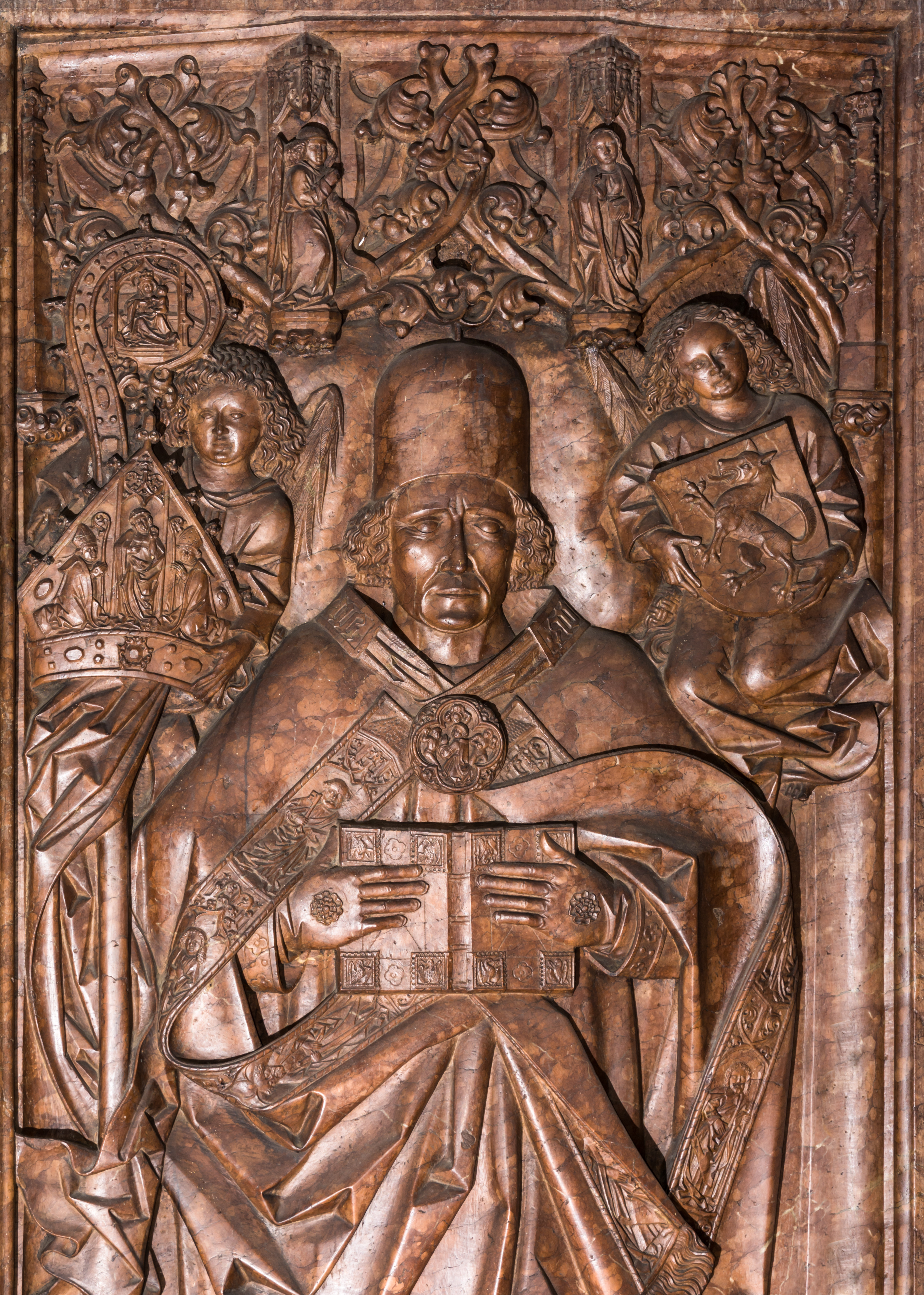 Epitaph for Friedrich Mauerkircher († 1485), Bavarian chancellor and bishop of Passau, in St. Stephen's parish church, Braunau am Inn, Upper Austria. Hanns Peurlin the Middle, red marble, after 1485.